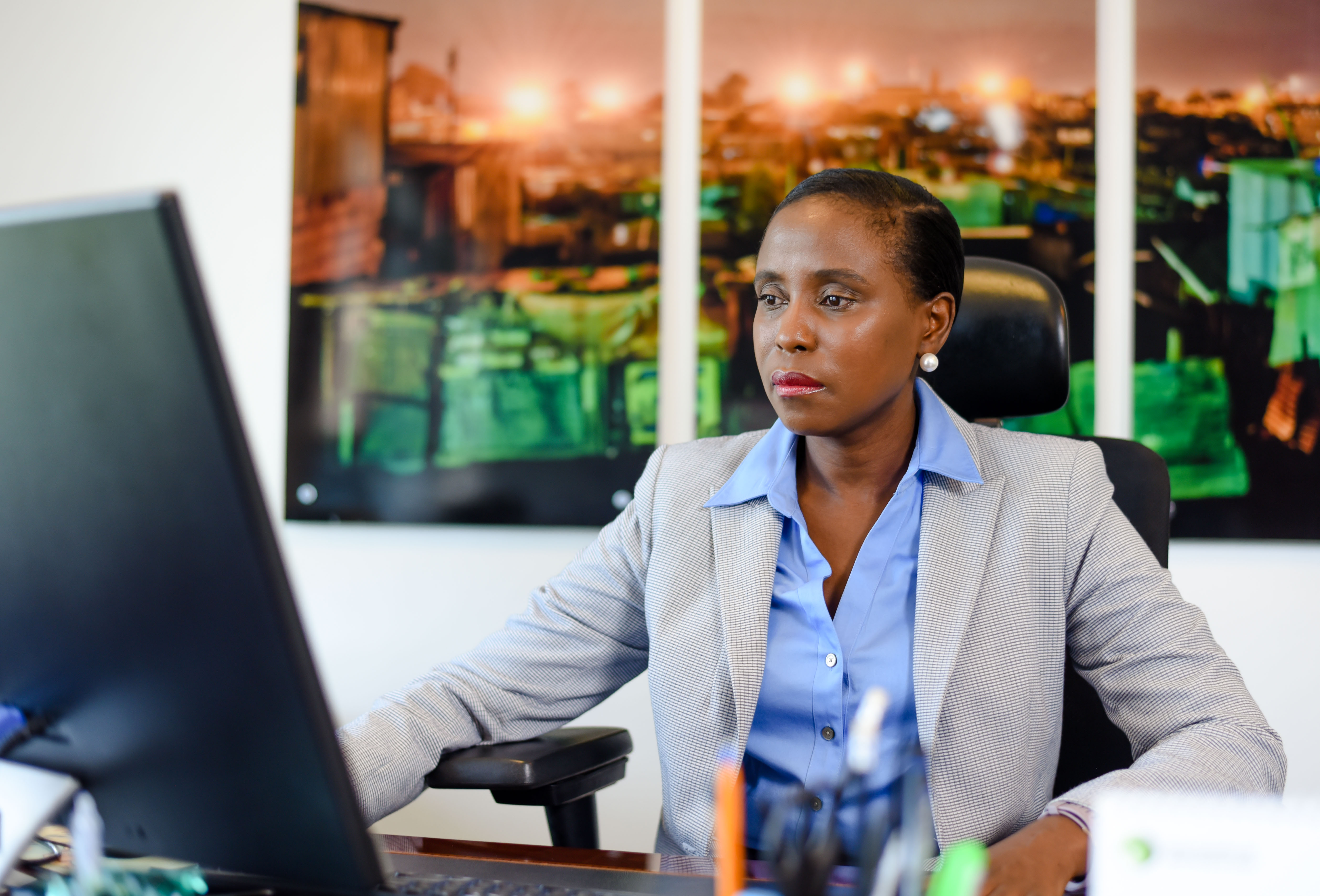 African epidemiologist and Executive Director of the African Population and Health Research Center, Catherine Kyobutungi